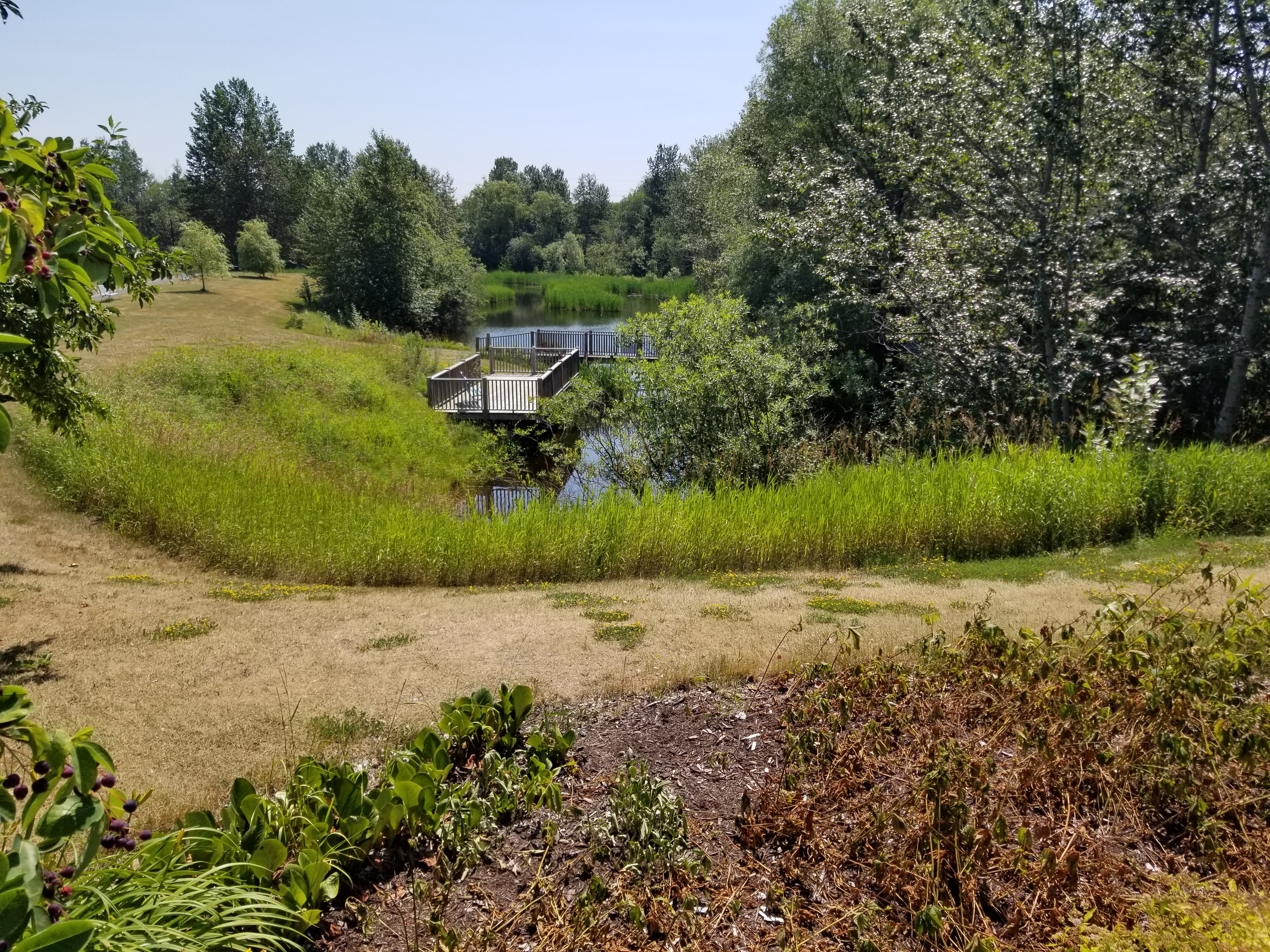 Wild water shot of the bike path passing in the park of the banks of Clermont.